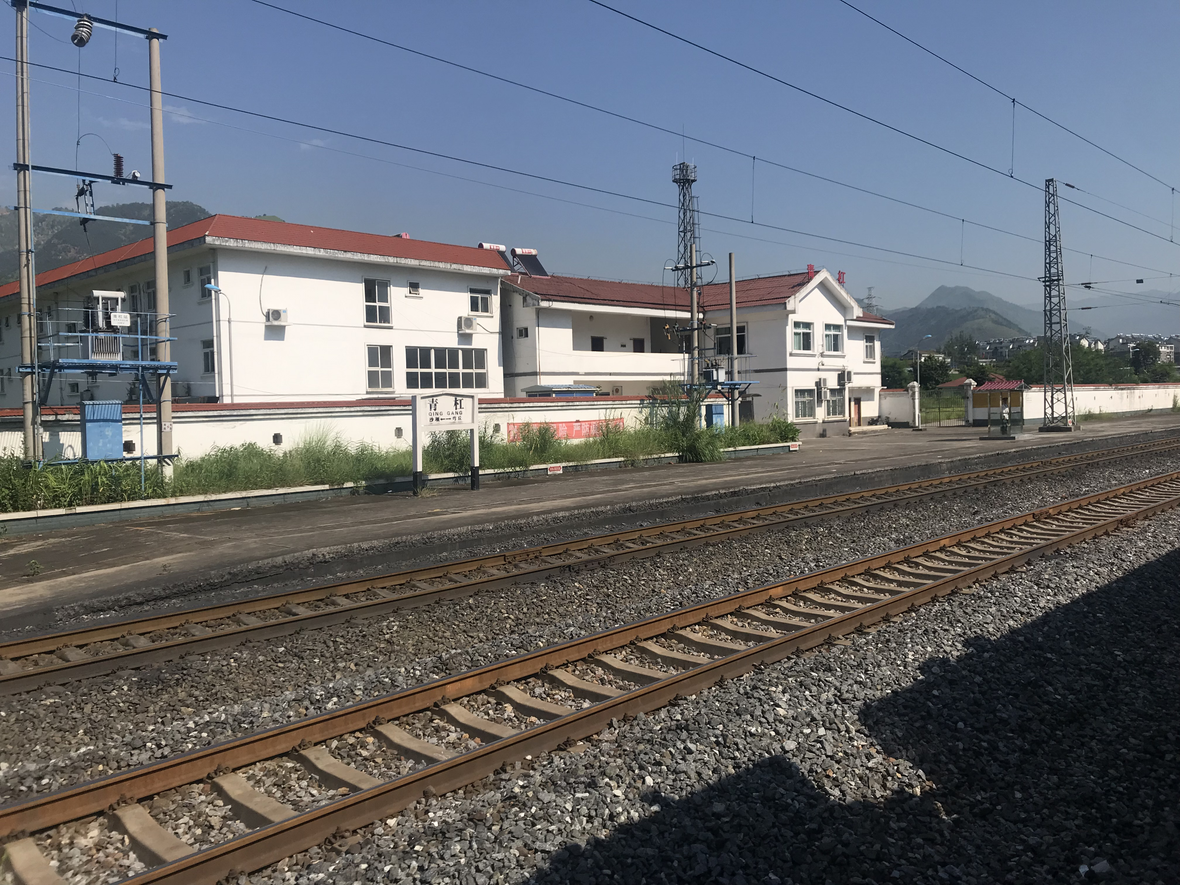 201908 Station Building of Qinggang